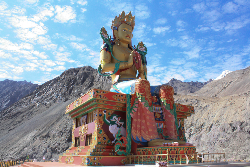 Maitreya Buddha at diskit monastery, Ladakh, India